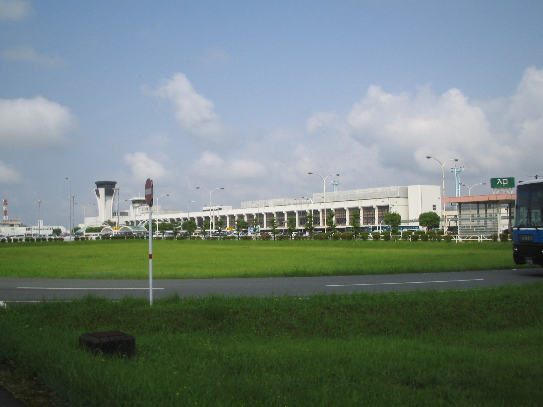 Kumamoto (KMJ) Airport photo, 2007